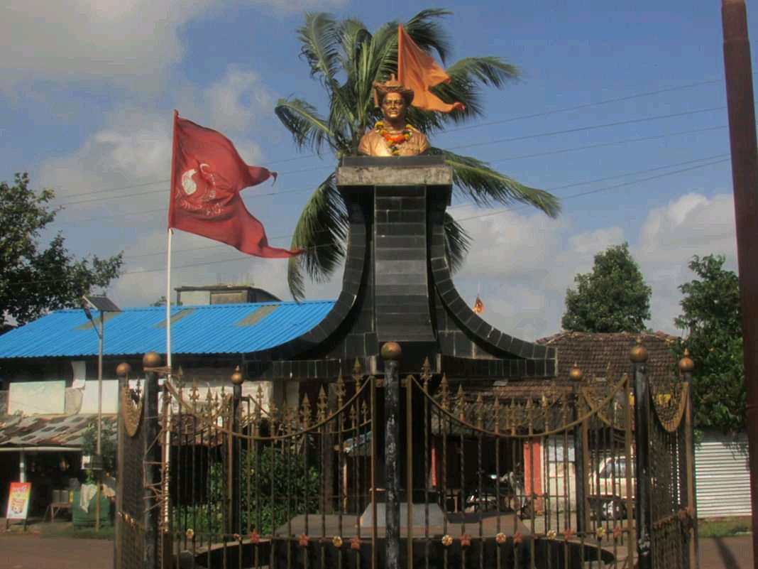 Yashwantrao's statue in Jawhar City